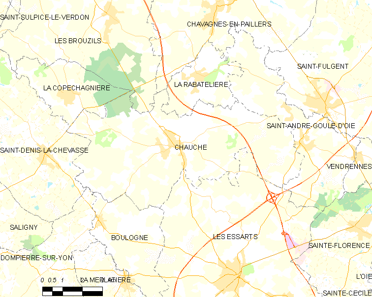 Map of French municipality Chauché